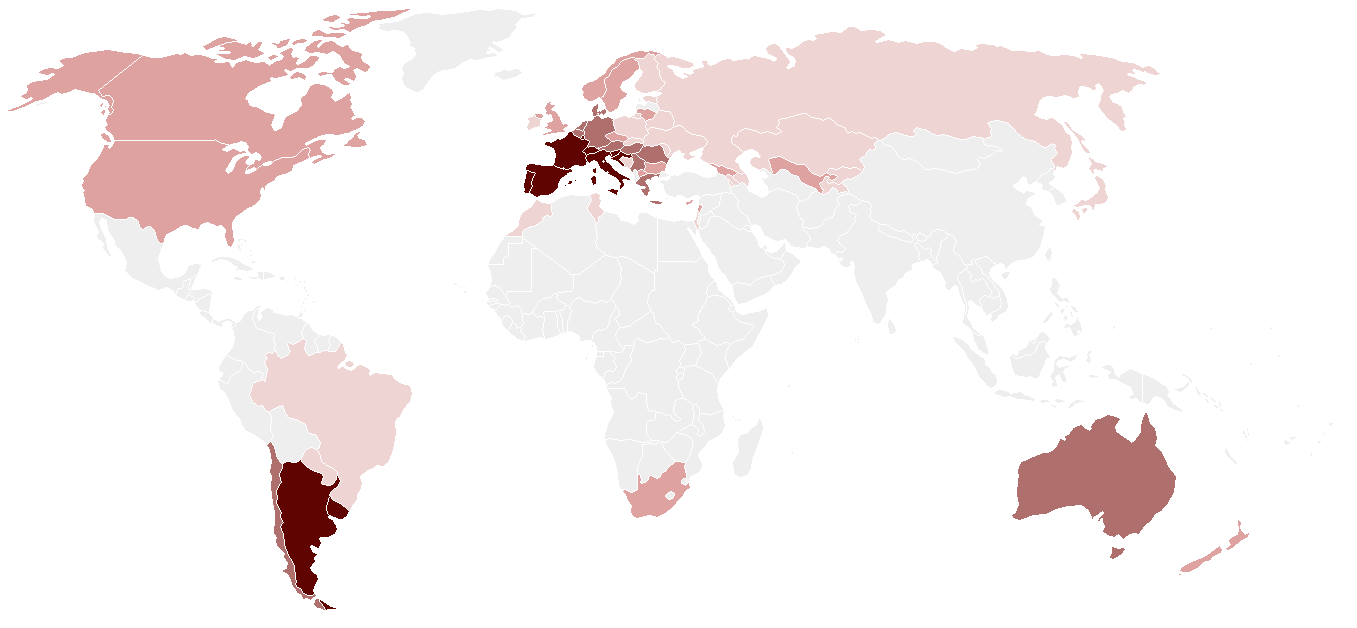 Wine yearly consumption, per capita: less than 1 litre between 1 and 7 litres between 7 and 15 litres between 15 and 30 litres more than 30 litres